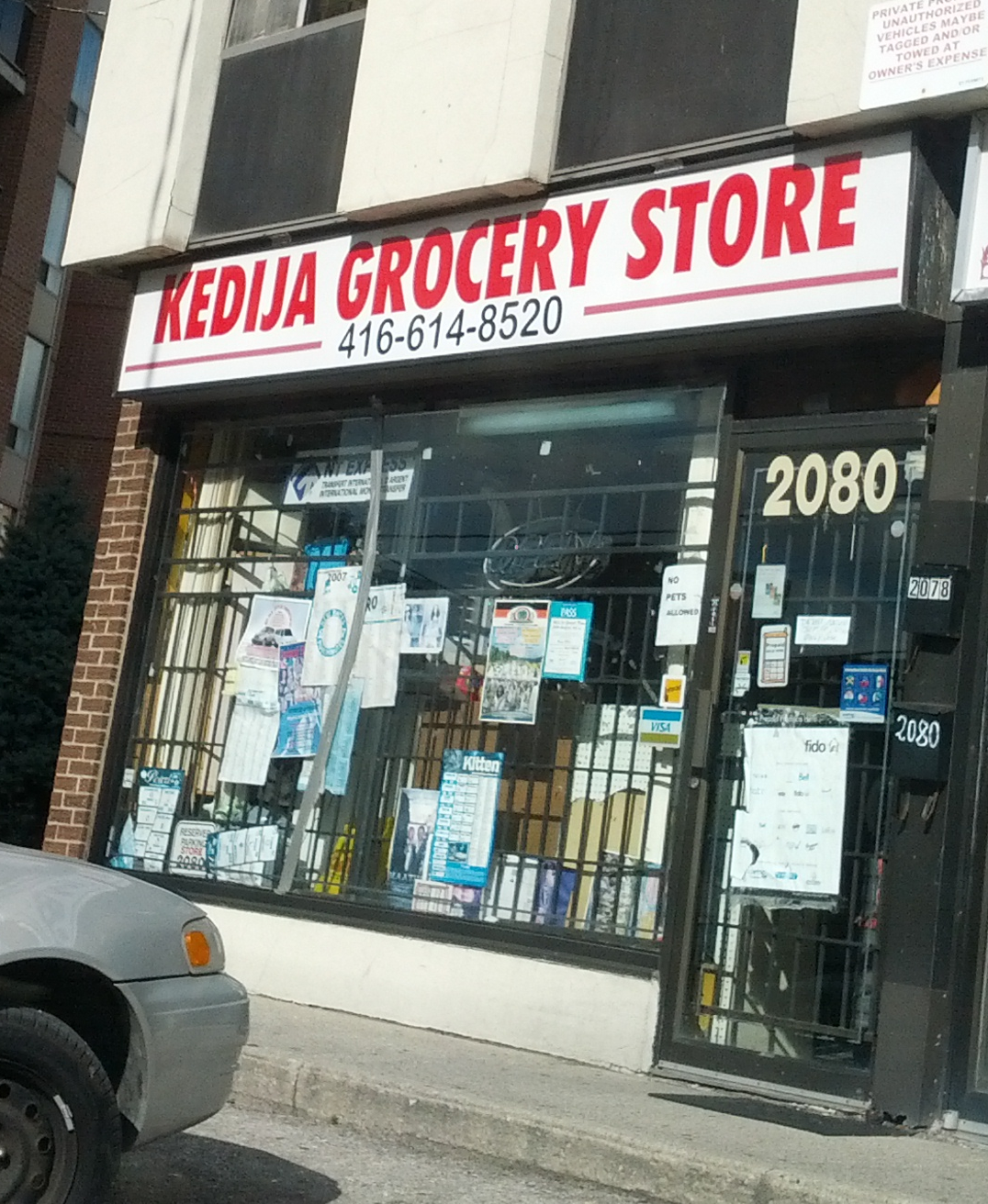 Somali-owned Kedija grocery store in Toronto, Canada.